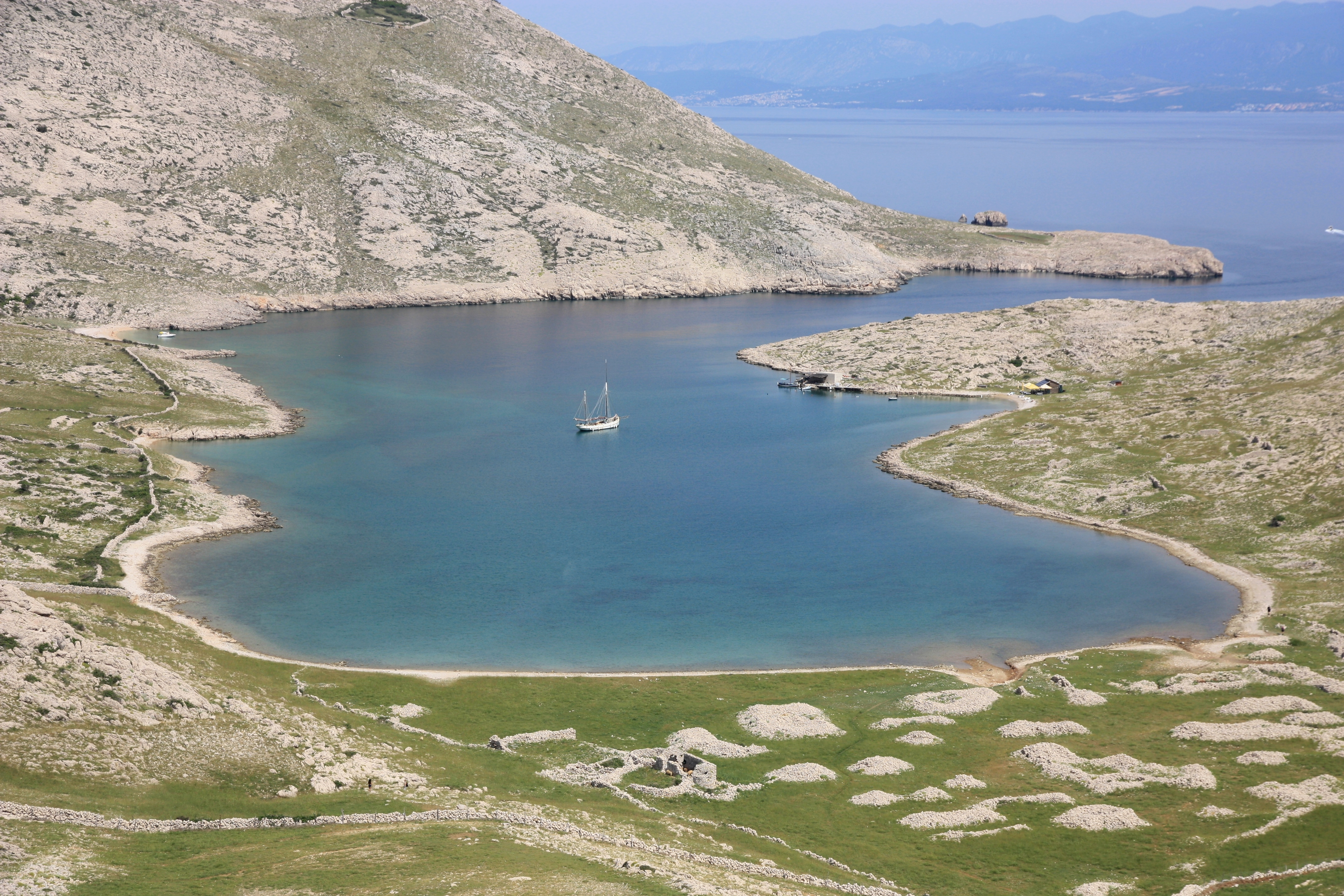 Ornithological reserve Glavine - Mala luka, Krk island, Croatia This is a a photo of a natural area in Croatia with ID: SR01